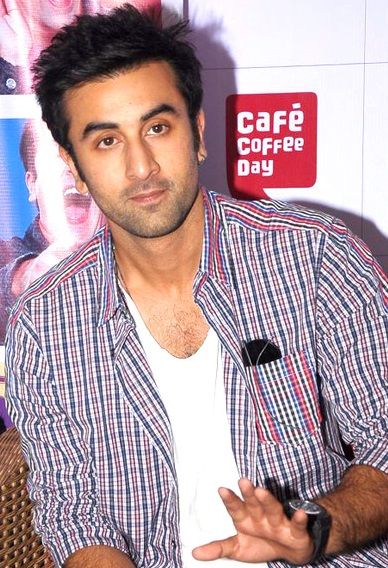 Ranbir Kapoor promoting Barfi! at Cafe Coffee Day